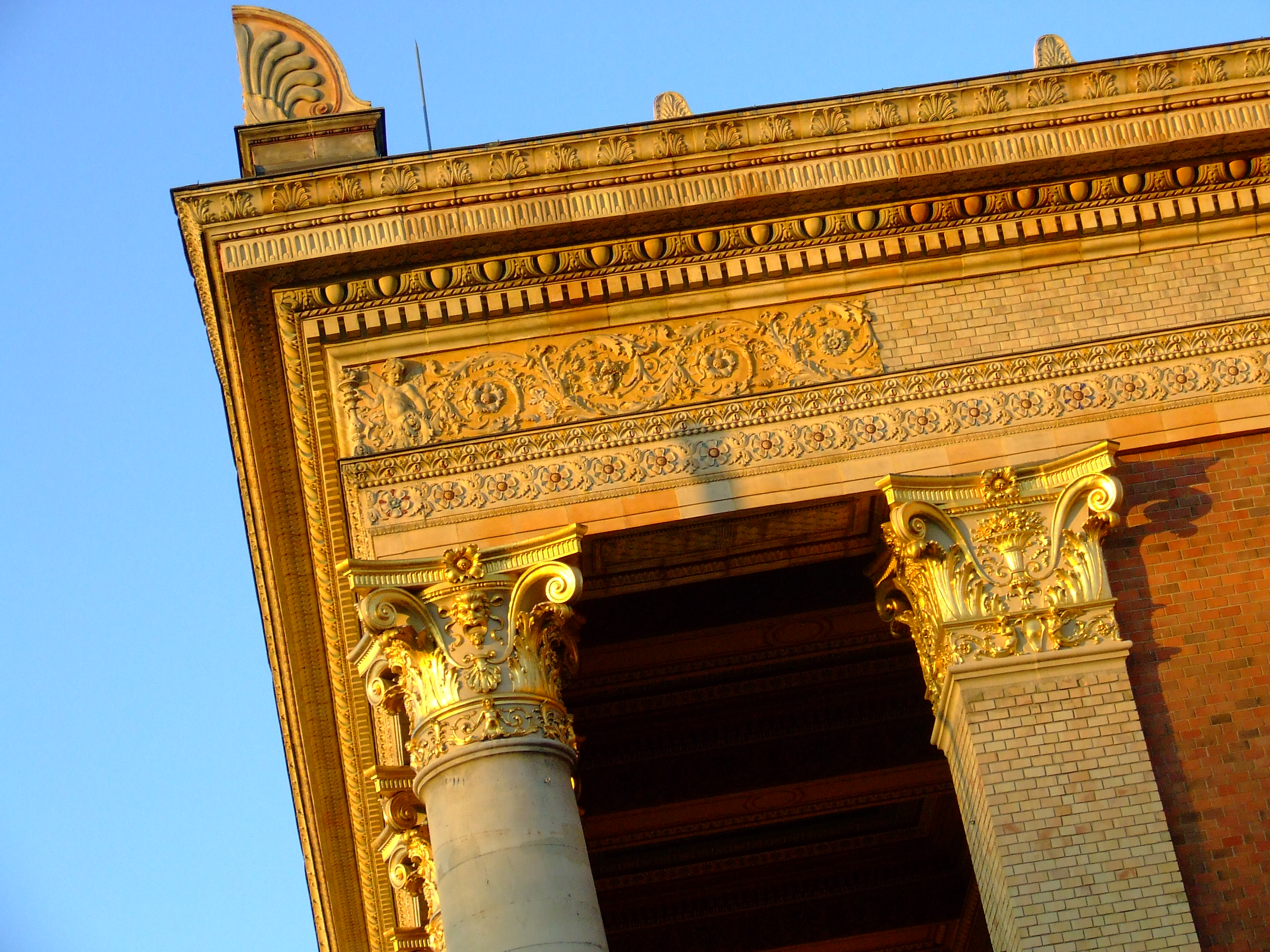 Palace of art- Budapest